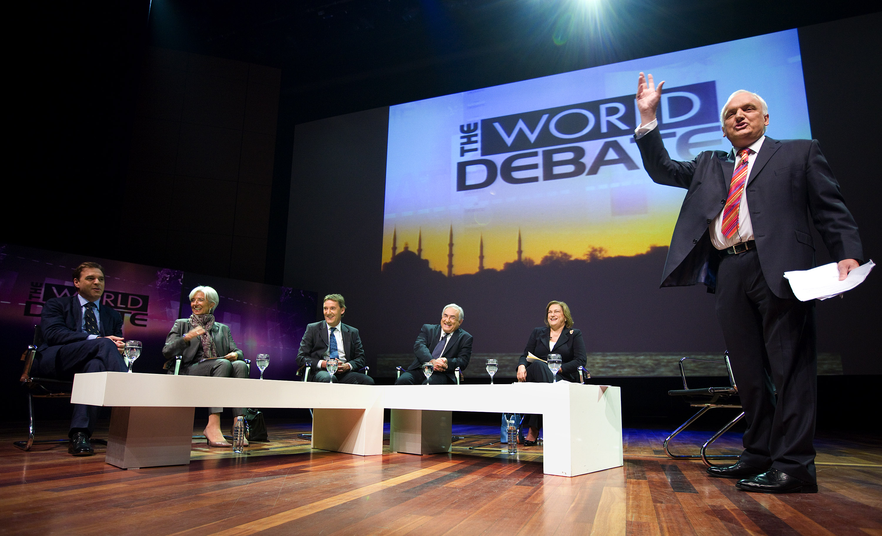 Nik Gowing hosts a live "Special World Debate" with panelists Economic Historian Niall Ferguson, French Finance Minister Christine Lagarde, Goldman Sachs Jim O'Neill, International Monetary Fund's Managing Director Dominique Strauss-Kahn and Chairmwoman of Sabanci Holding Guler Sabanci